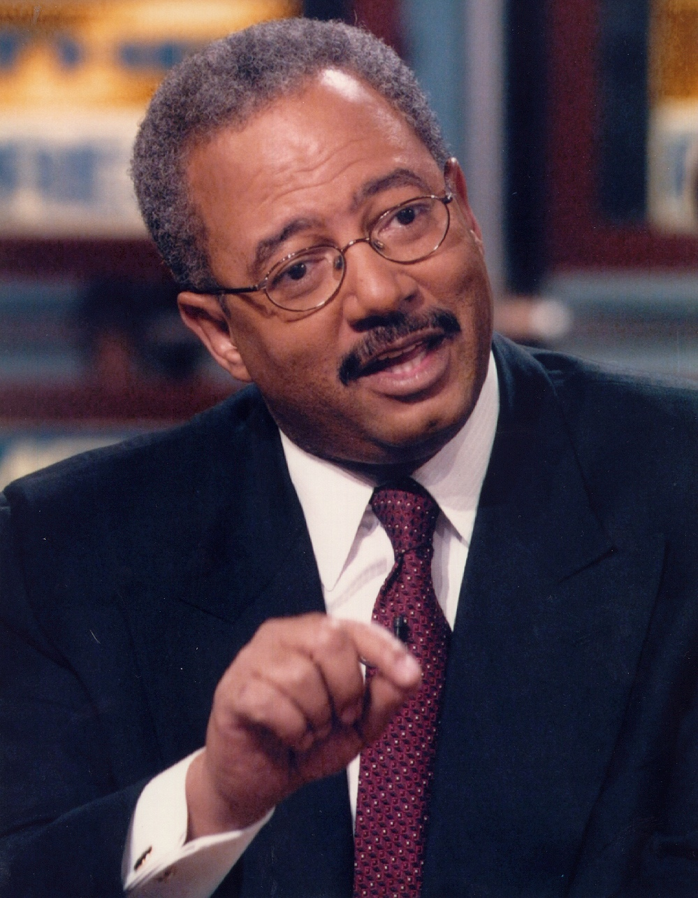 Official House Photo of Congressman Chaka Fattah, from Pennsylvania's 2nd district